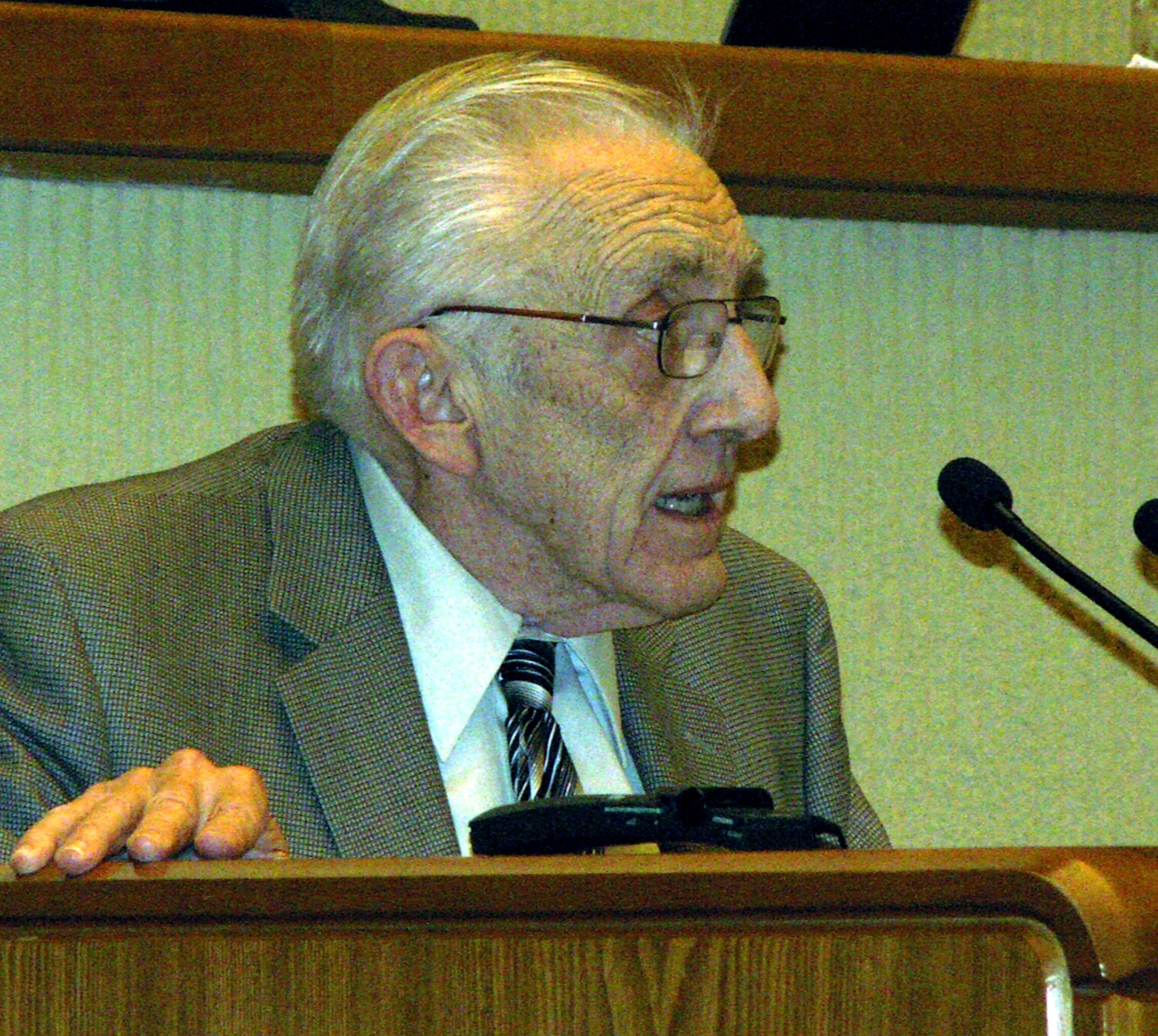 Alfred Erich Senn professor of history at the University of Wisconsin–Madison, in Seimas of Lithuania